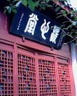 Hall of Xi Xin at Dragon Spring College